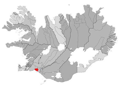 Árborg, Icelandic municipality Own work based on Image:Municipalities_of_Iceland.png using The Gimp